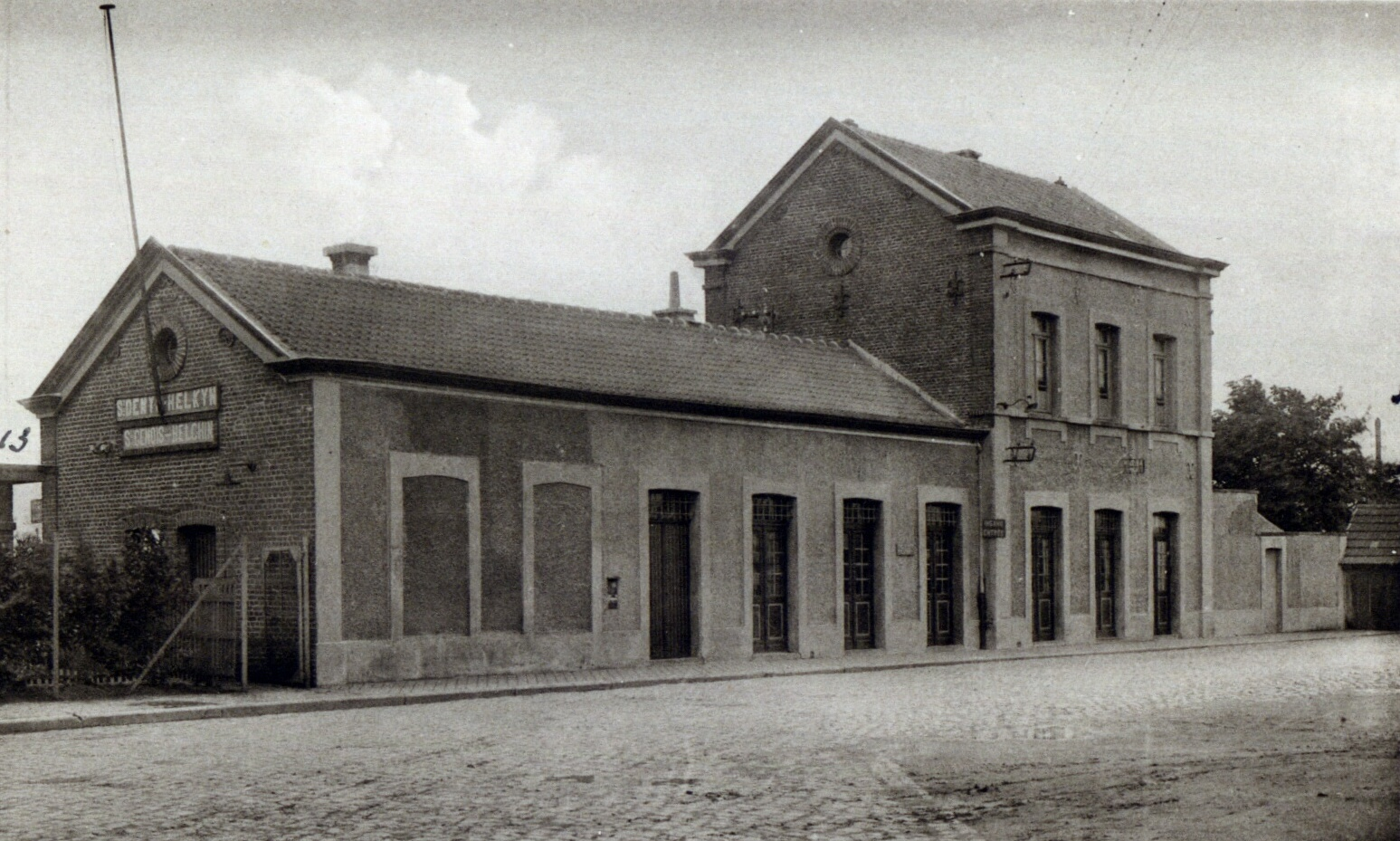 La gare de St-Genois, Belgique. See europeana record here: St-Genois: la gare - Ghent University Library. CC BY-SA - (Saint Genois is called now called Sint-Denijs)